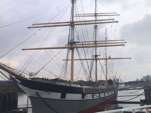 Photo of the GlenLee in Glasgow.